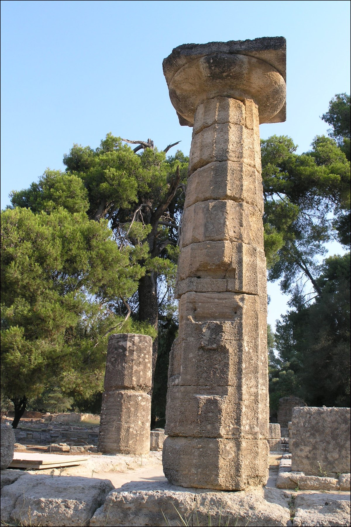 Olympia, Greek